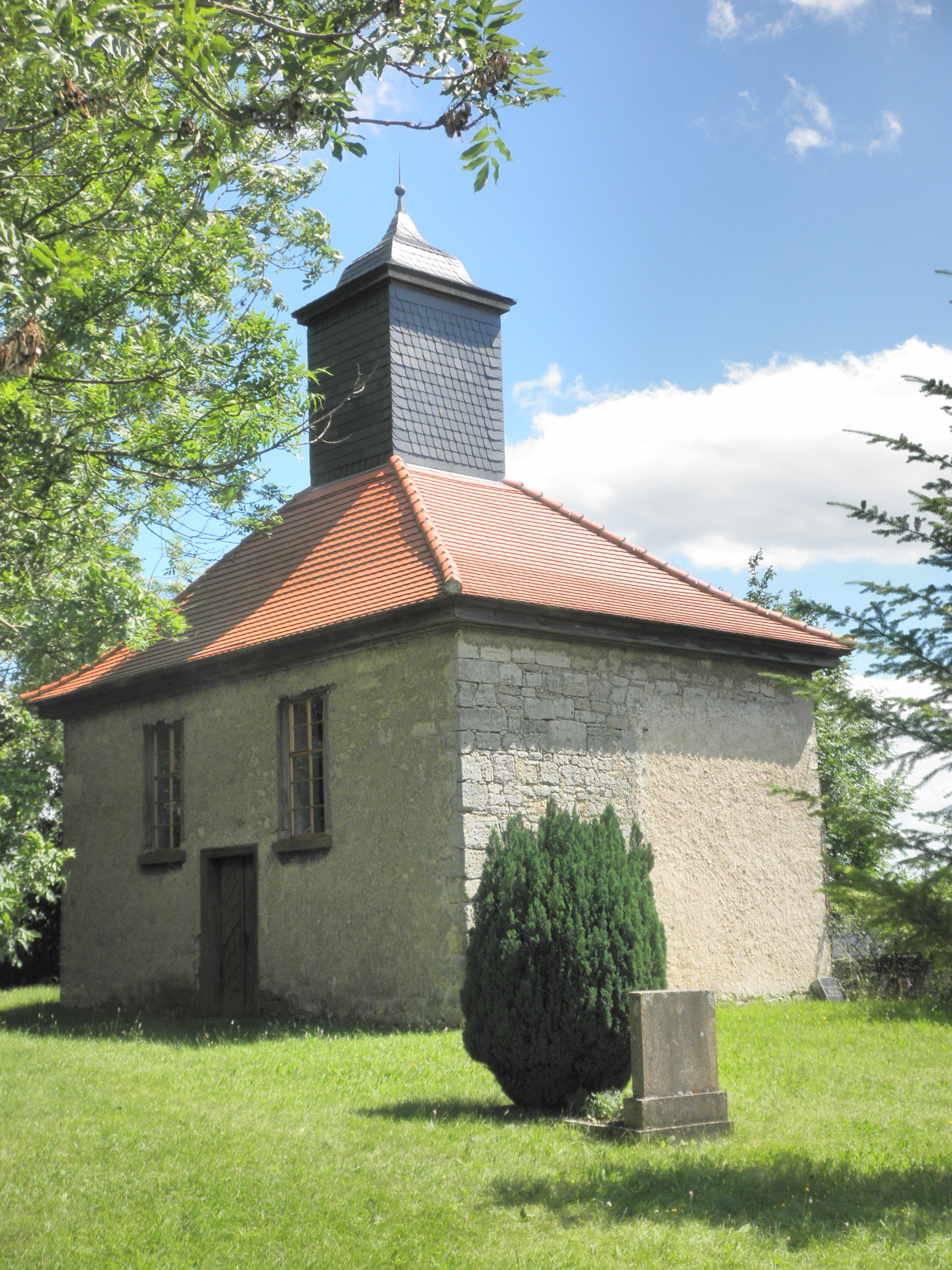 Church in Rodias (Milda) in Thuringia